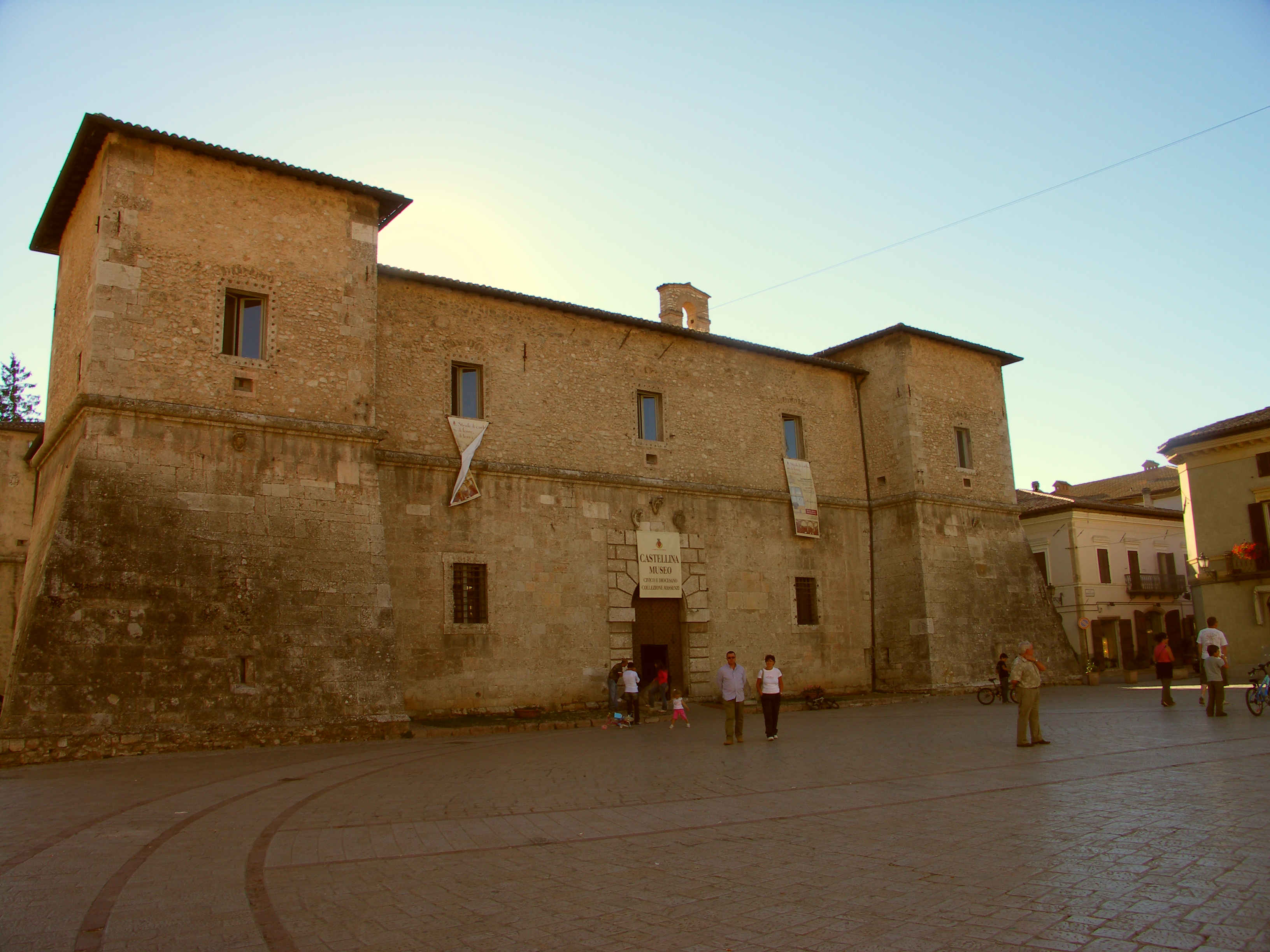 View of Castellina fortress- Norcia (PG) - Umbria - Italy